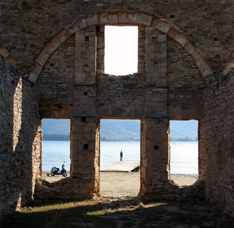 my daughter with her bike